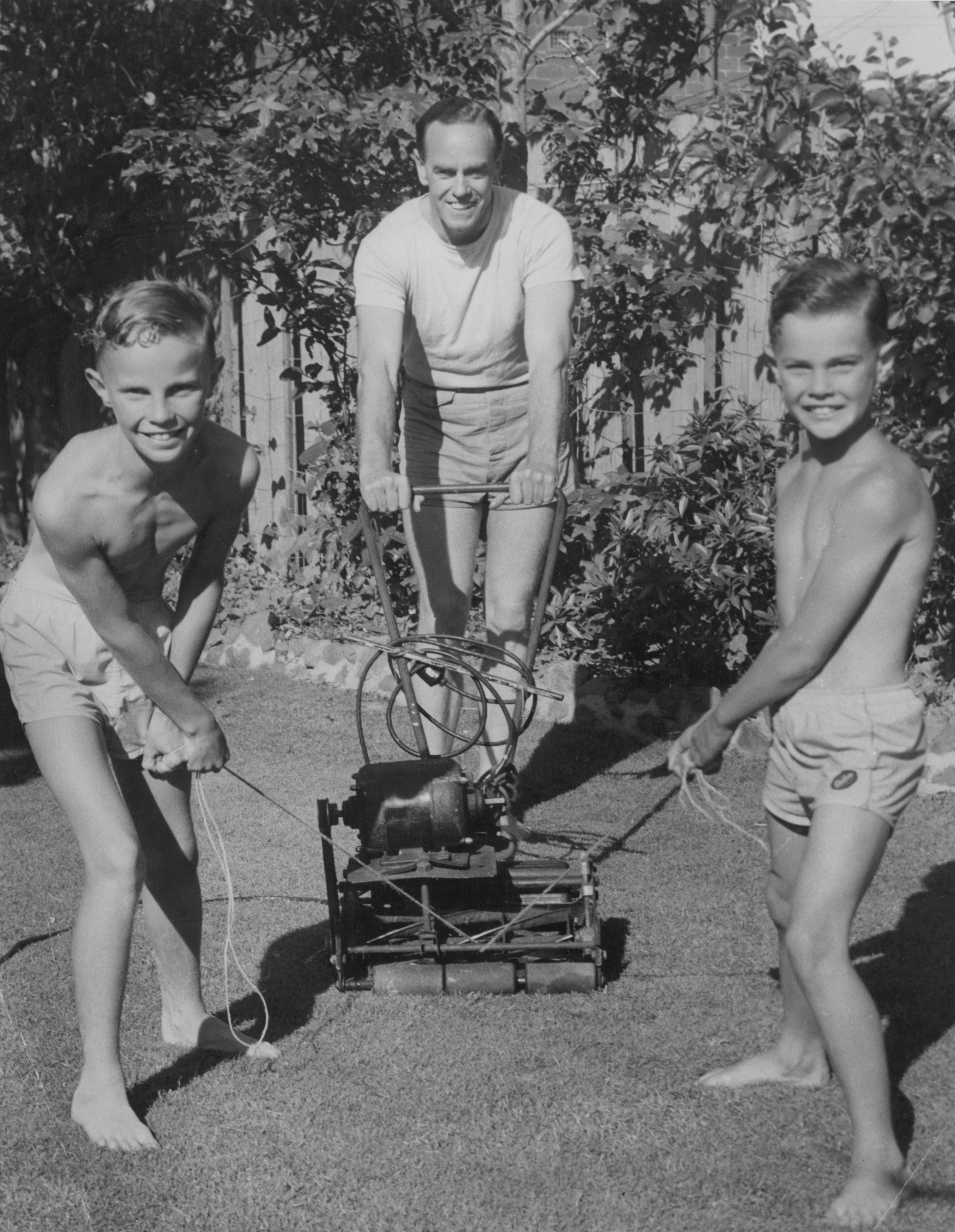 Looking after Dad, Ian Johnson gets a helping hand from his sons to cut the lawns before going down to Albert Park beach for a swim